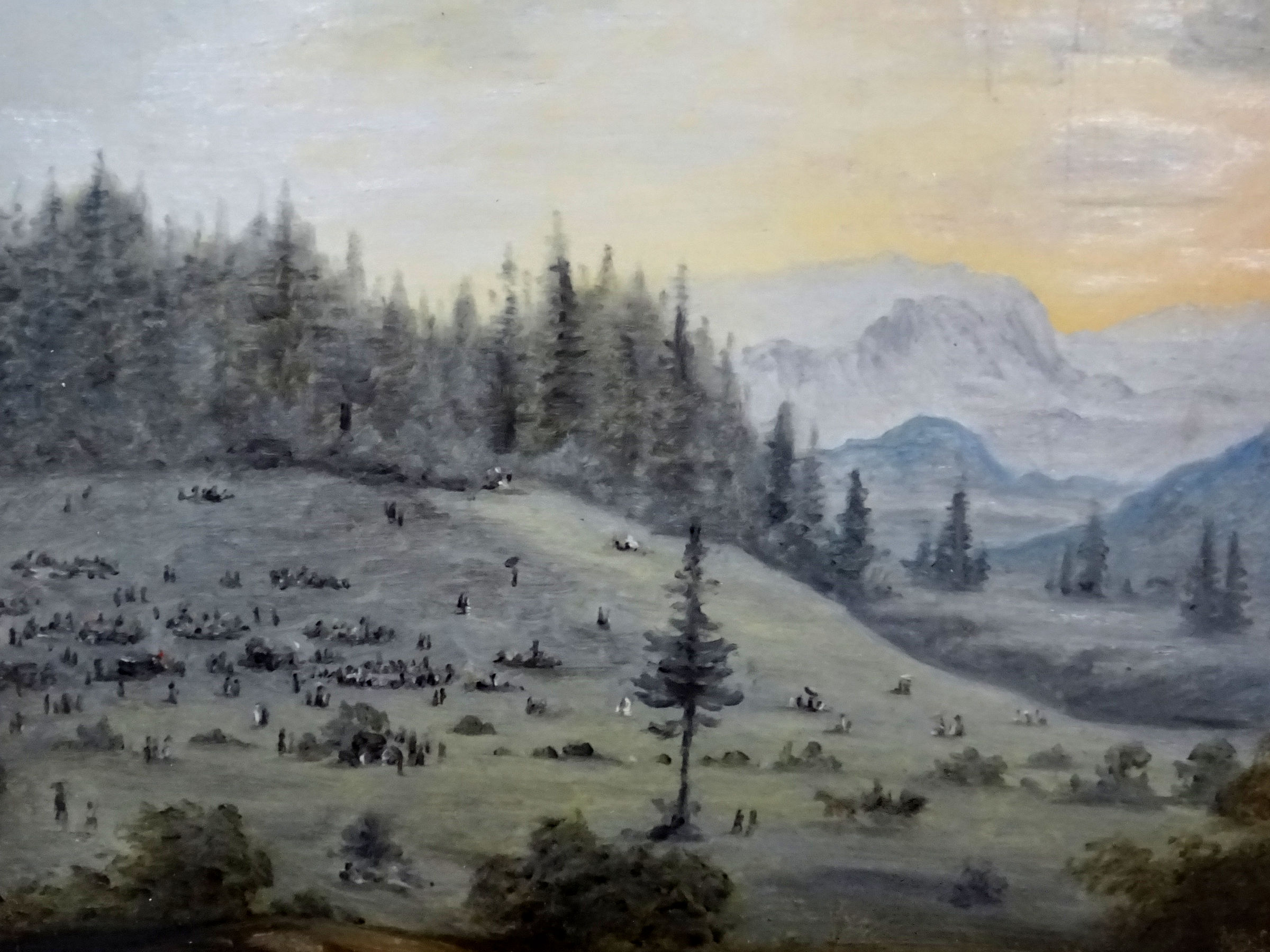 Feast in Poiana Brașov, painting by Romanian painter Mișu Popp. Without date.